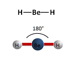 Example of a linear molecule (BeH2)